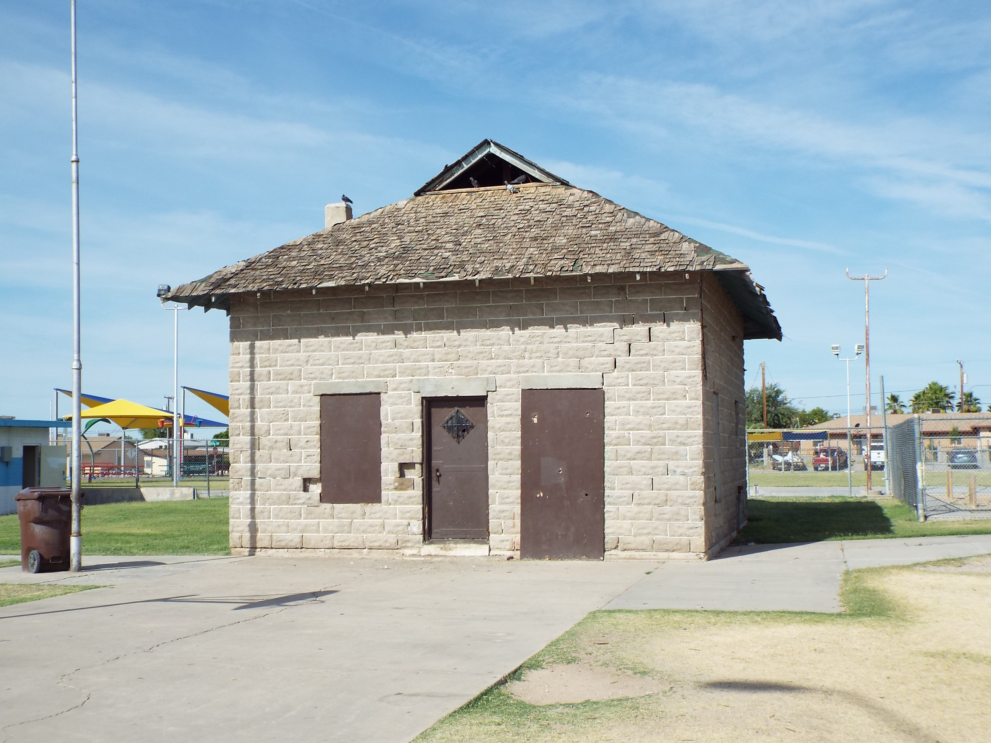 The Old Parker Jail - The jail was built in 1914 and is located in Pop Harvey City Park. It was listed on the National Register of Historic Places in April 3, 1975, Reference #75000369.